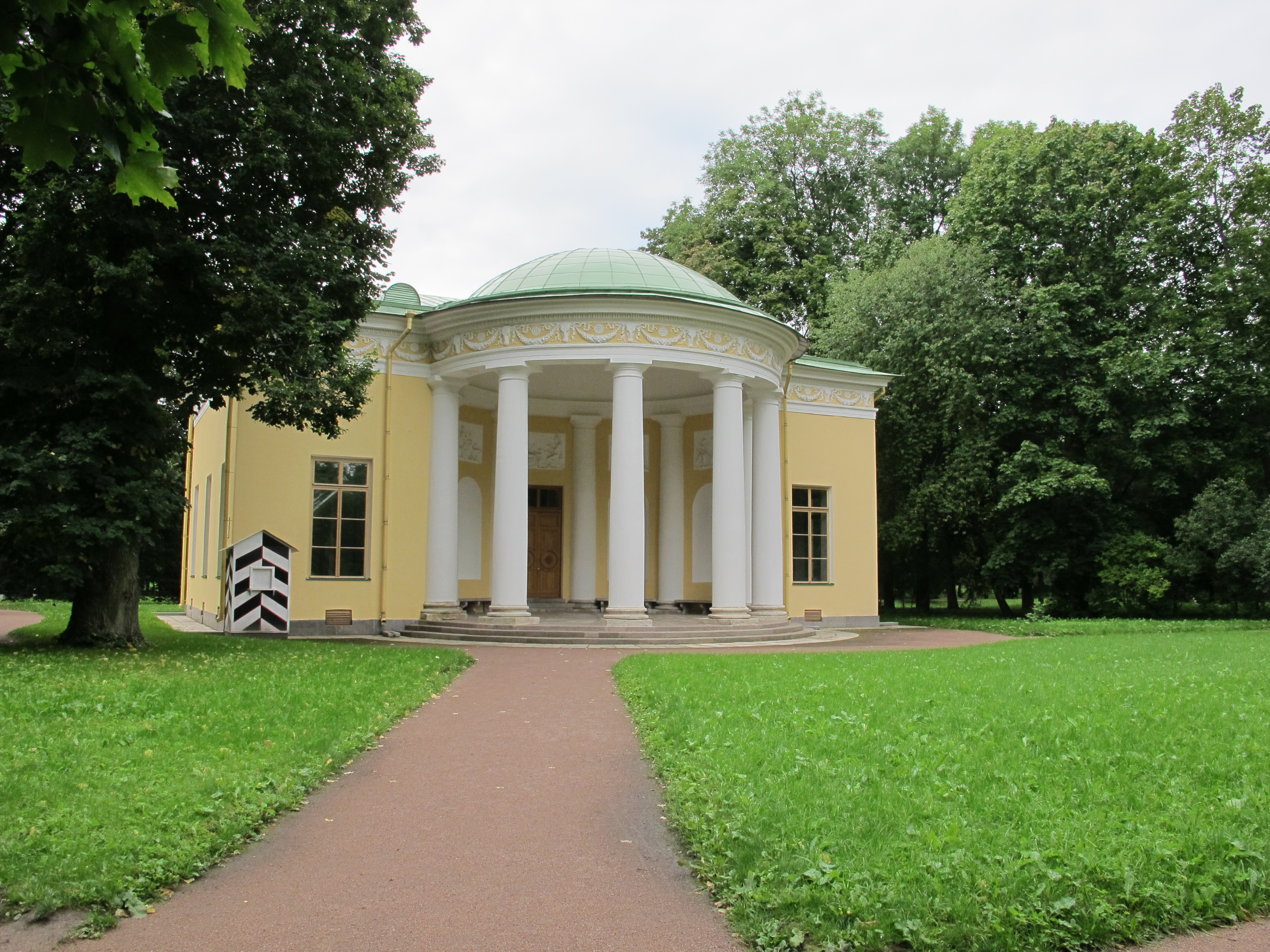 Concert hall